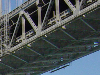 Detail of San Francisco-Oakland Bay Bridge showing seismic retrofit elements. These include the diagonal braces under both decks and the replacement of steel lattice work on the beams with plate. The access holes in the plate facilitated the attachment of the plates using high strength bolts, replacing the earlier hot rivets used previously. Image selectively contrast enhanced. Similar lattice beam structural elements remain unmodified on the eastern span, which is to be entirely replaced. See Image:SFOakBBLaticeBeamsClose.jpg for beams similar to the original lattice beam element configuration as currently seen on the eastern span